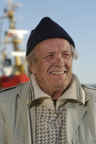 Erik Bye. Photo: Redningsselskapet, Ingar Bie